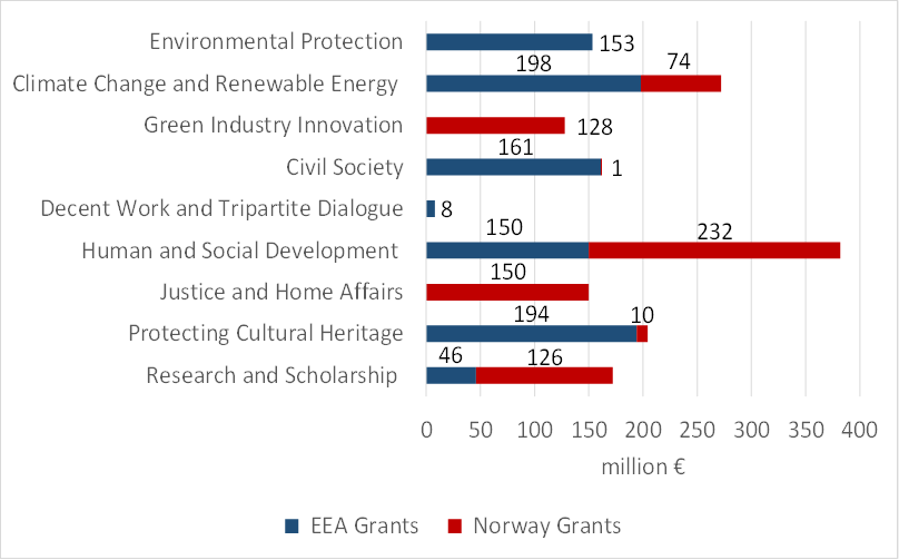 EEA and Norway Grants